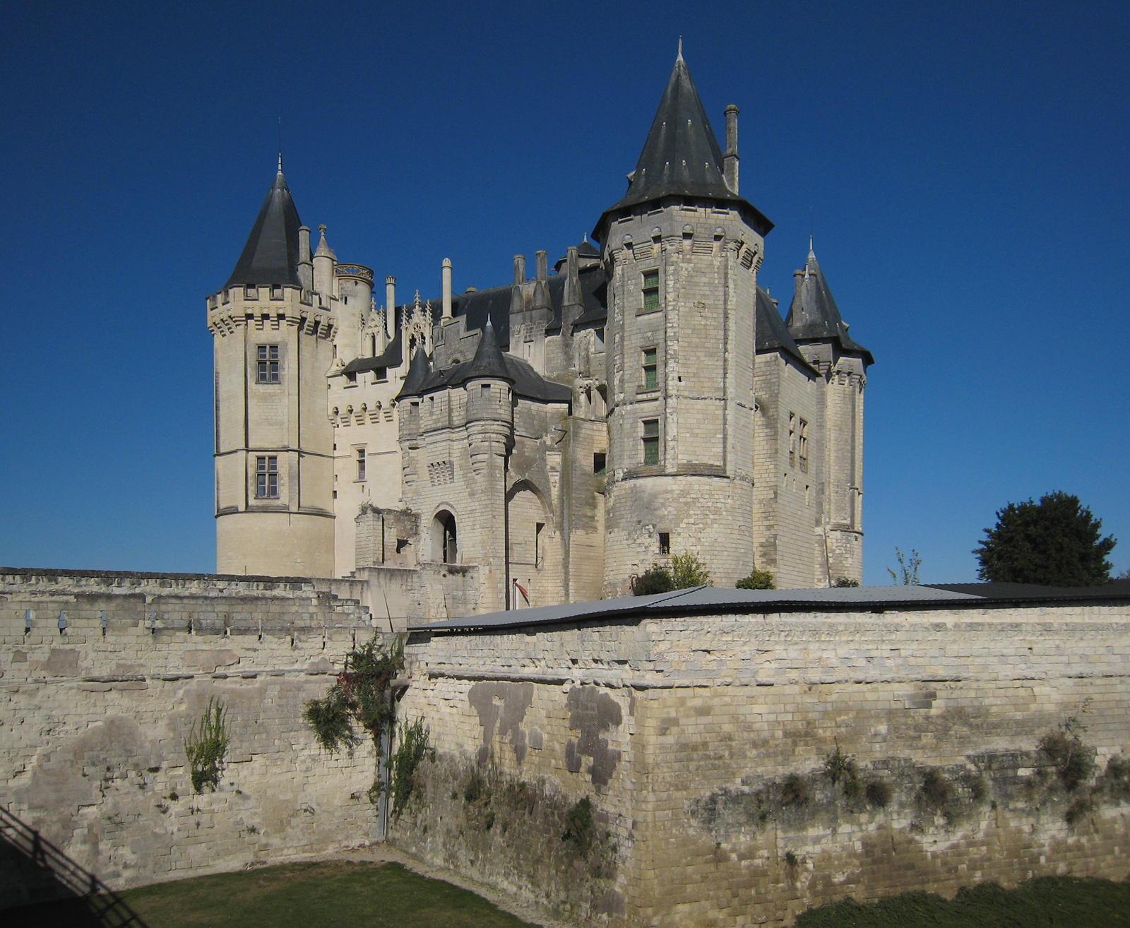 Castle Saumur, located on the river Loire in the county of Maine-et-Loire/France.